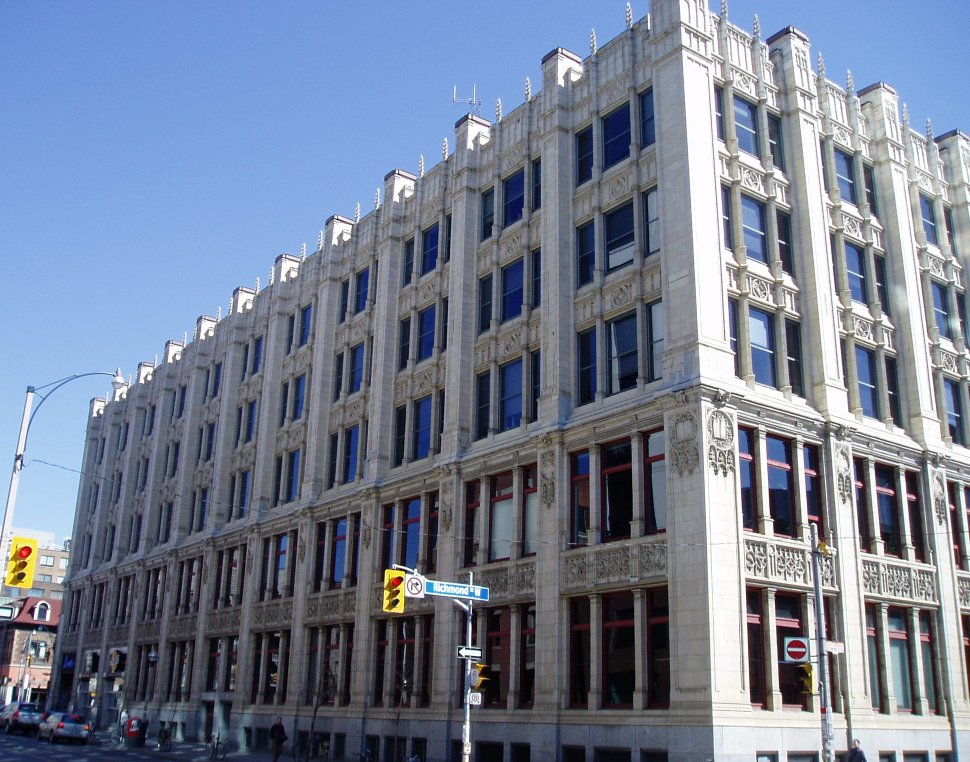 Taken by SimonP in April 2005